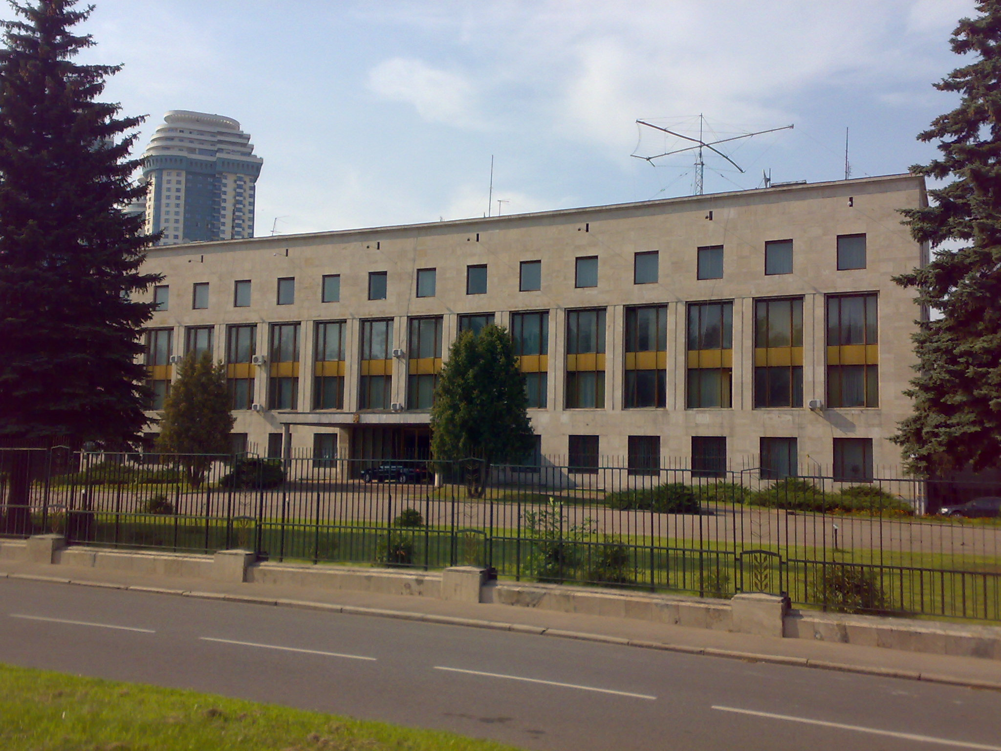 took this image using my mobile phone, on 5 September, 2008. The embassy of Romania, in Moscow.